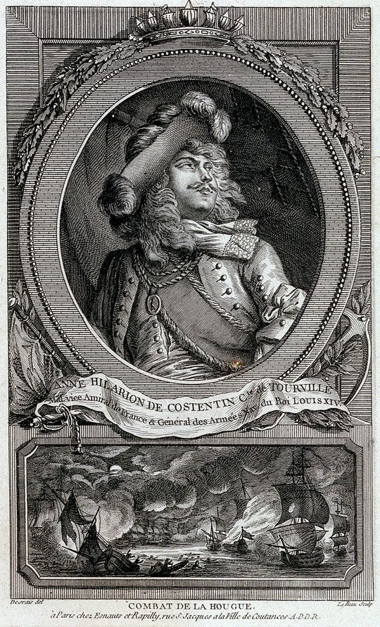 Portrait de Tourville, one of the principal chiefs of the navy of Louis XIV with a small representation of the Battle of La Hougue in 1692.